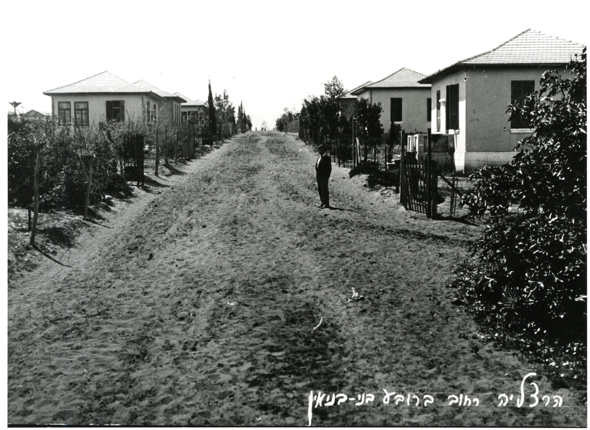 Settlements in Israel